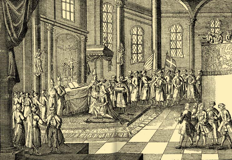 Coronation of King Charles III in Pozsony on 17 April 1711.